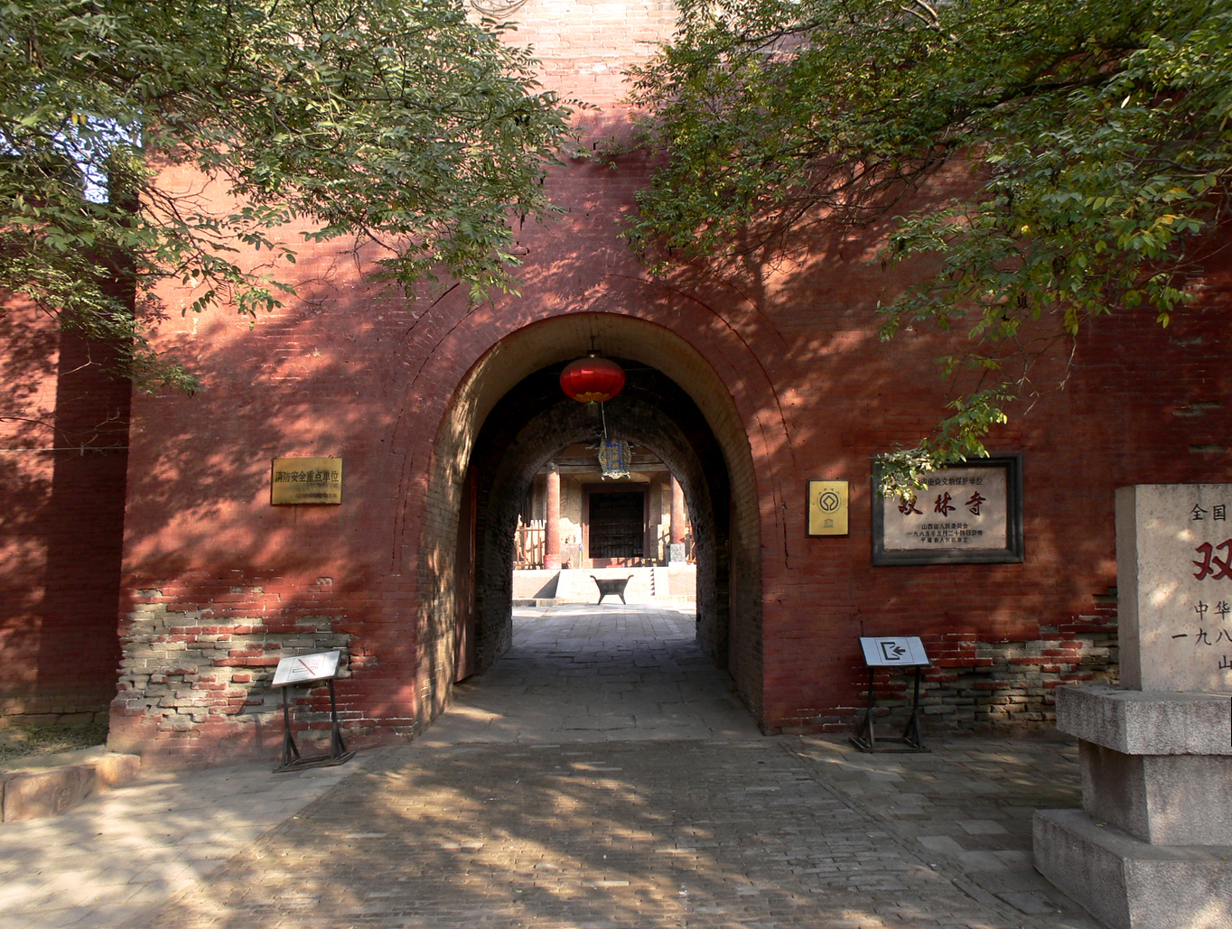 Shuanglin Temple, Pingyao